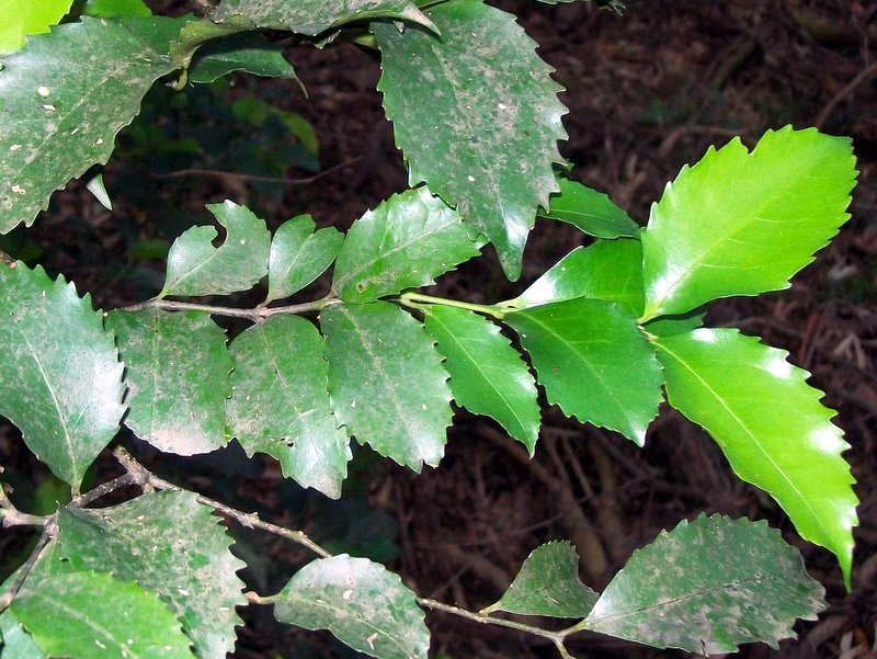 Daphnandra johnsonii coppice leaves, Budderoo National Park, Australia